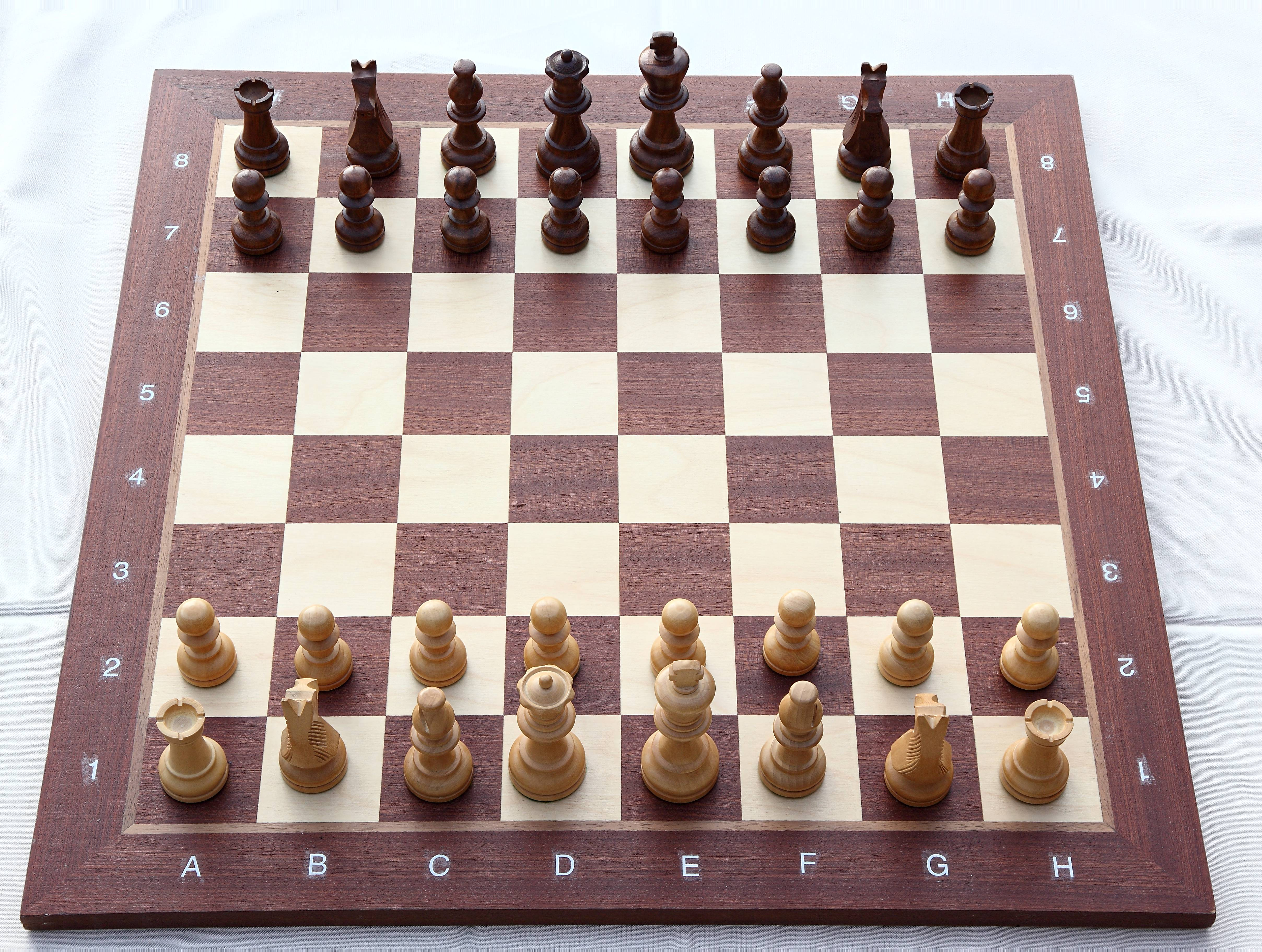 Chess board with chess set in opening position; Focus stacking with freeware CombineZP This image was created with CombineZP.